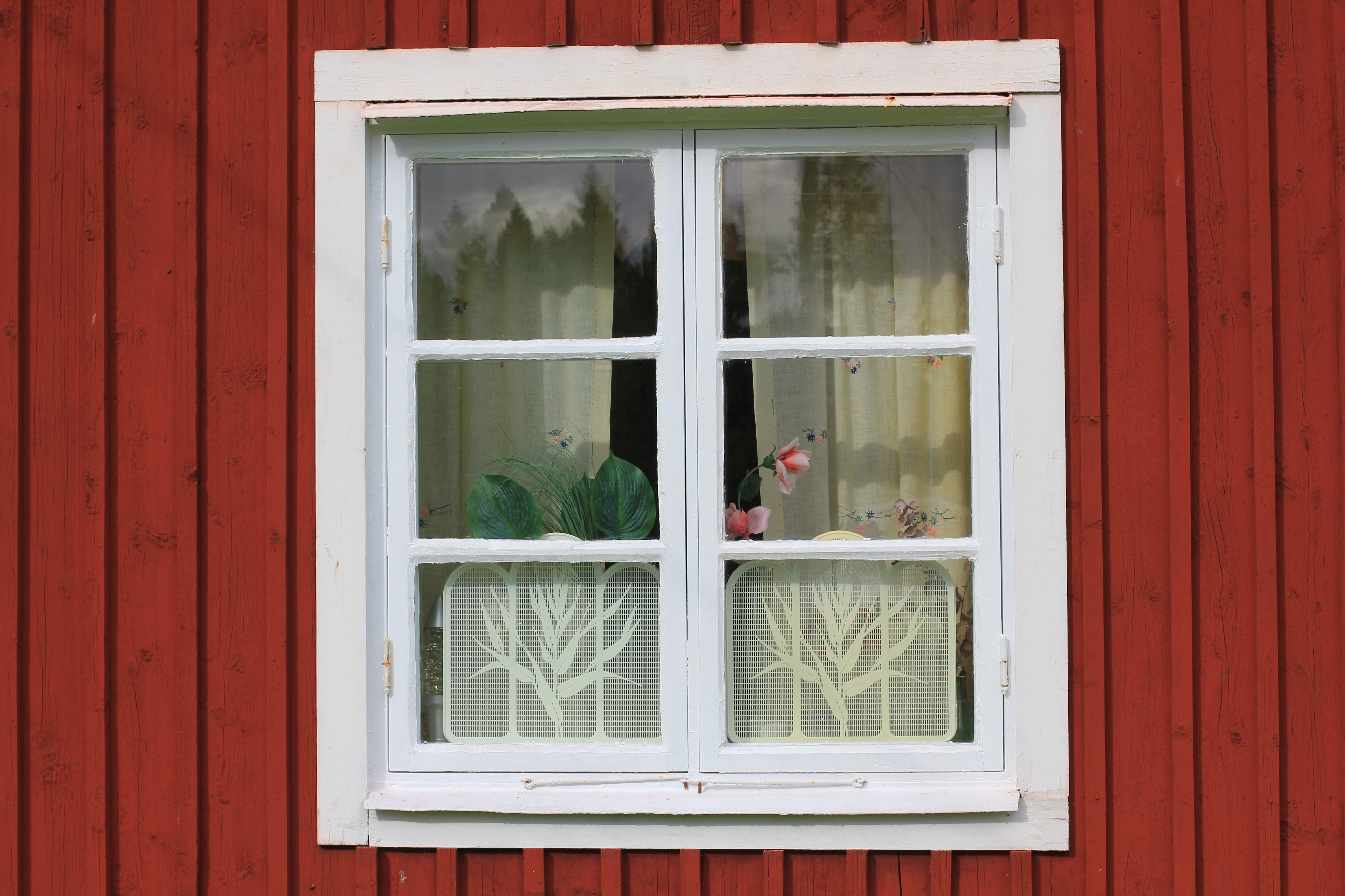 Old window on a house painted with the traditional natural Swedish color Falu Rödfärg.